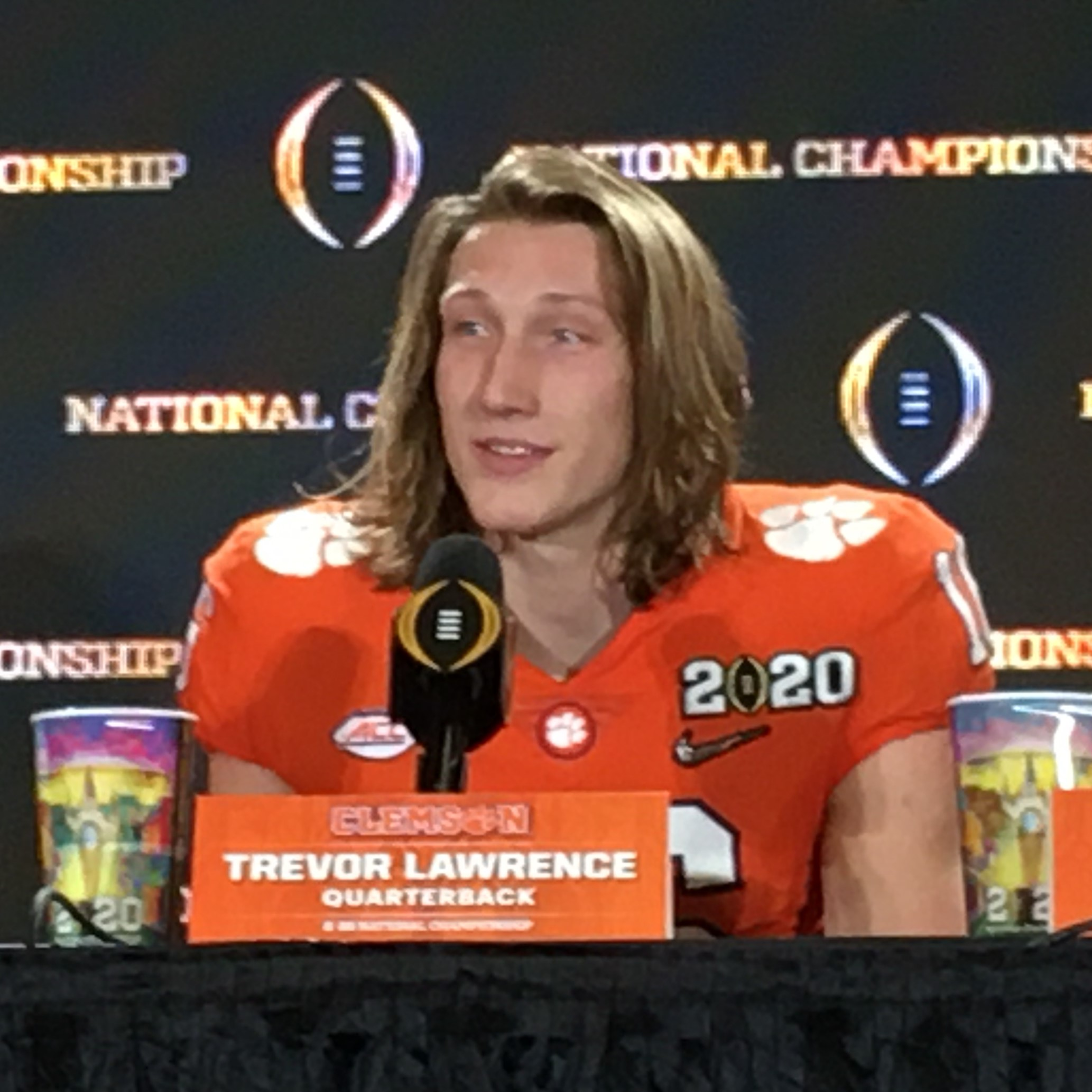 Trevor Lawrence, quarterback for the Clemson Tigers, at a press conference following the 2020 College Football Playoff National Championship in the Mercedes-Benz Superdome in New Orleans.